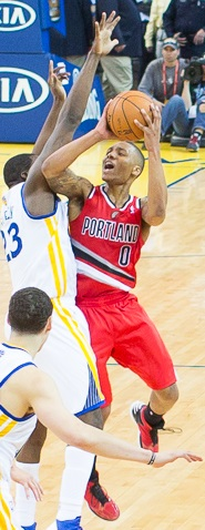 Damian Lillard of the Portland Trail Blazers attempts a jump shot over the Golden State Warriors' Draymond Green.